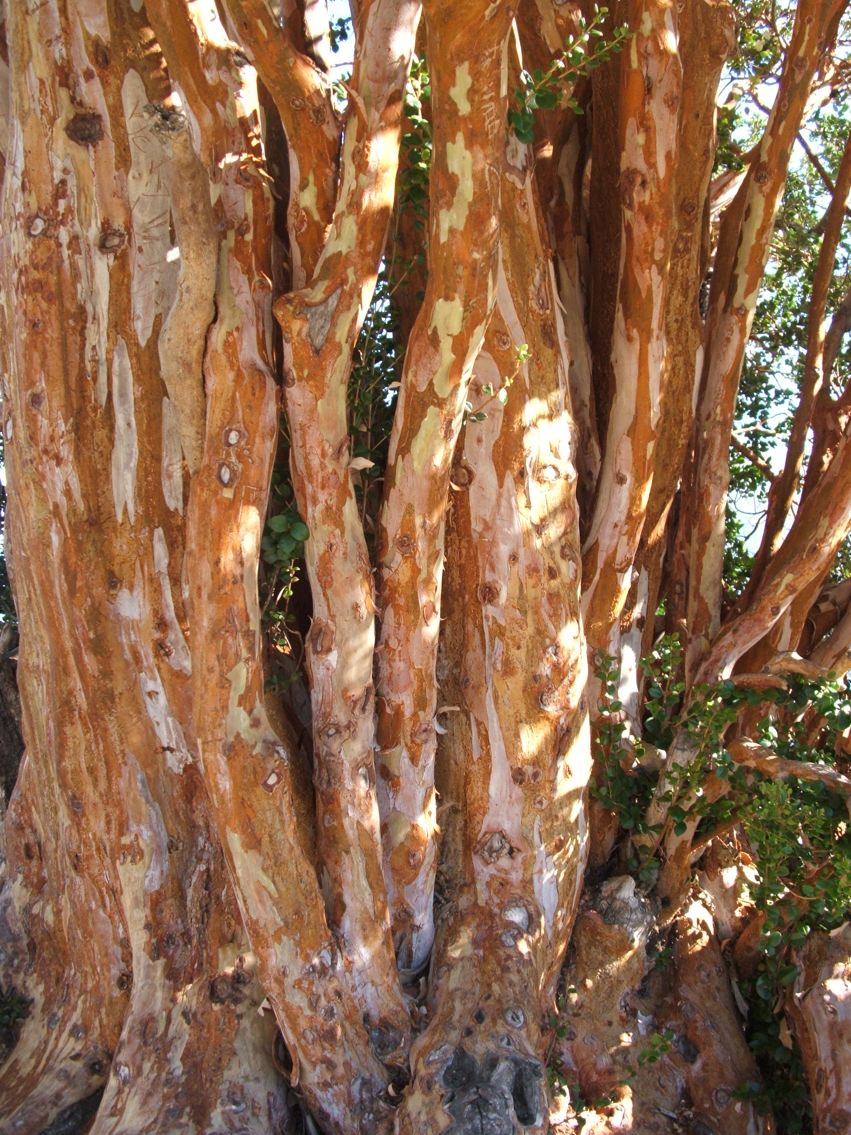 Arrayan branches near Lago Puelo in Argentine province of Chubut